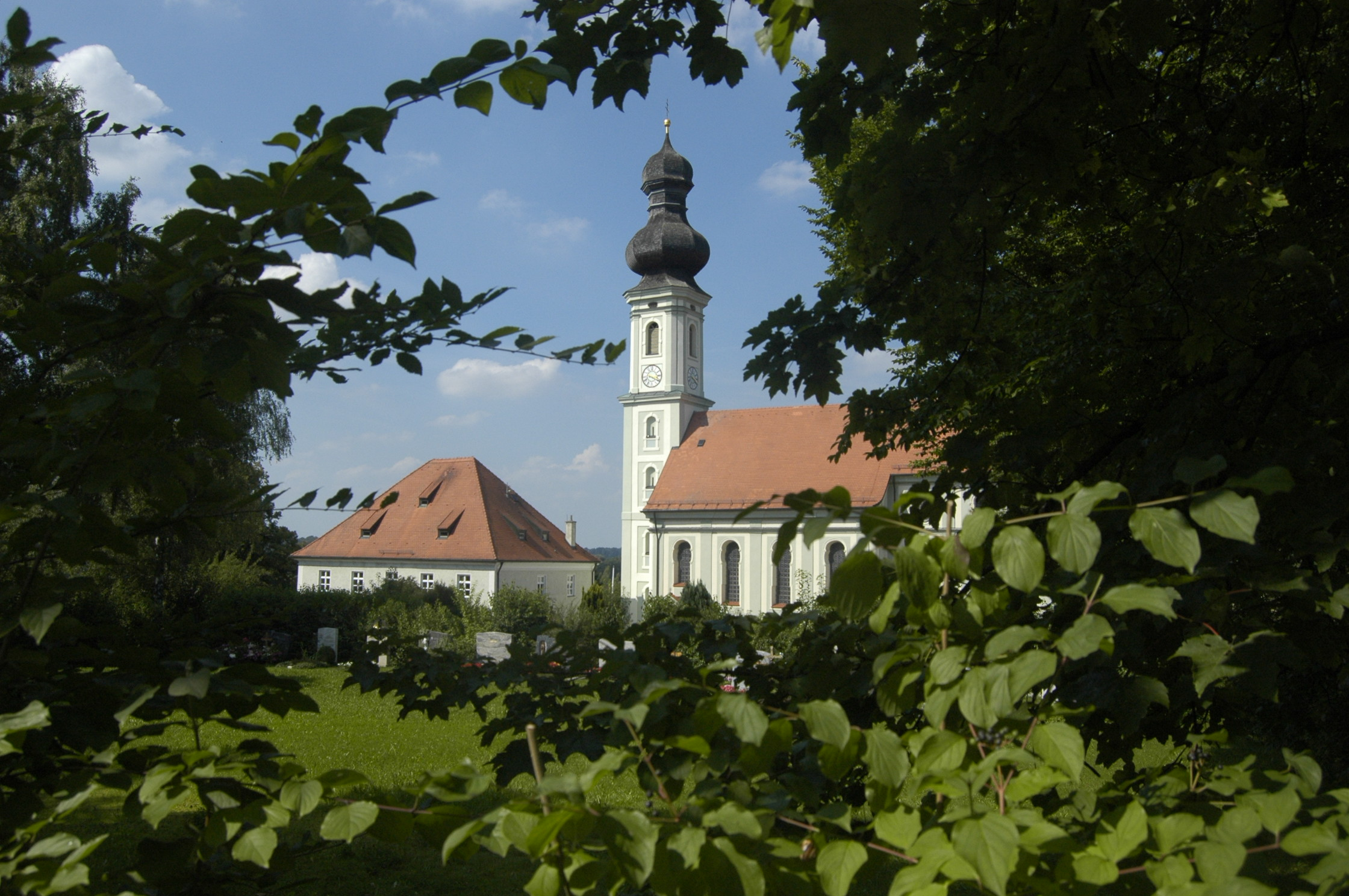 Catholic church of Wörth the Erding district.